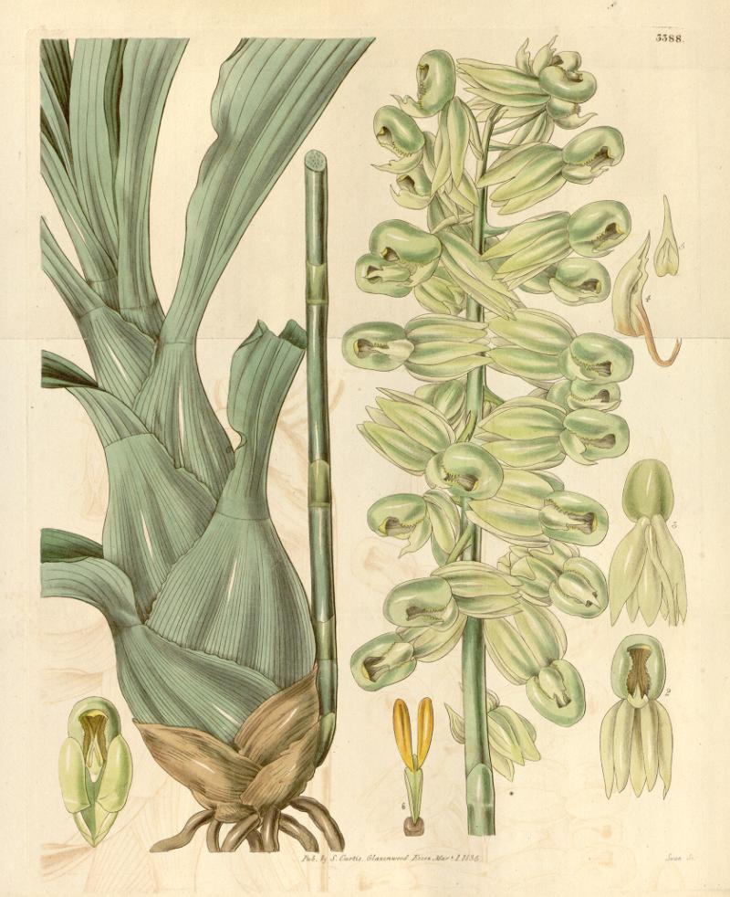 Illustration of Catasetum purum